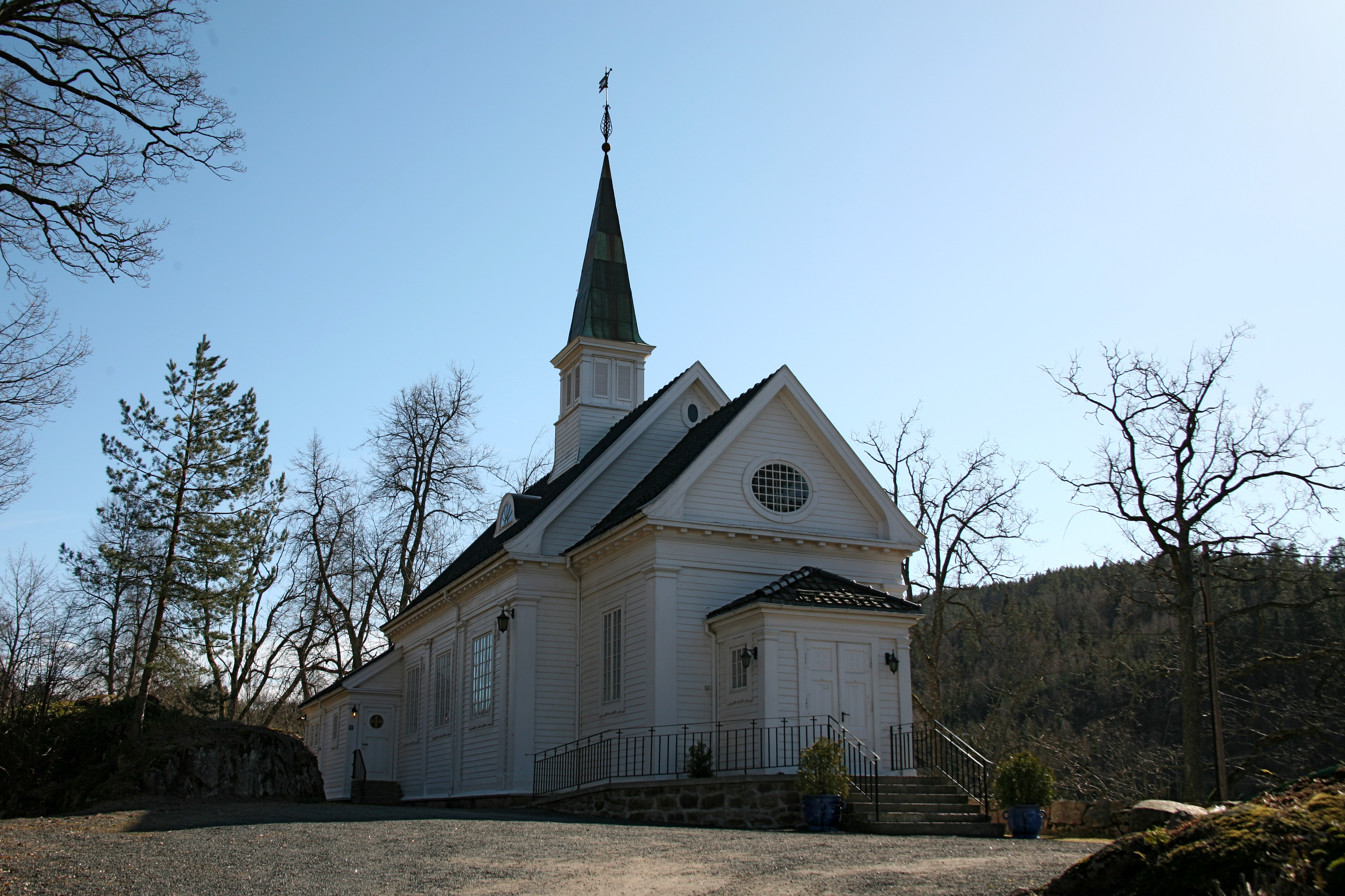 Kongsdelene Church, Buskerud, Norway.